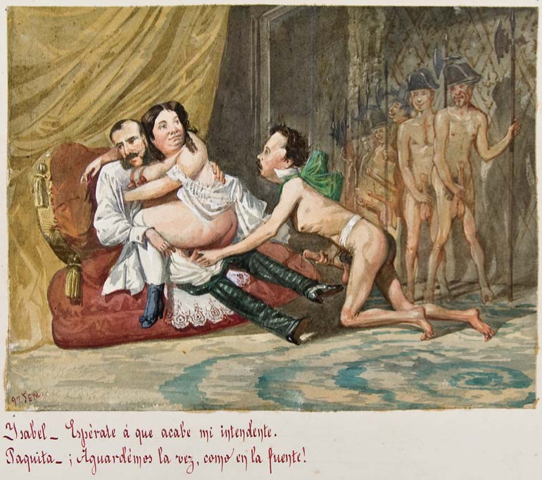 Isabel II with her mayor Carlos Marfori. Focus of Assisi. On the right awaits a guard battalion. Watercolor legend: Isabel —Wait for my mayor to finish. Paquita — Let's save time, as in the fountain!